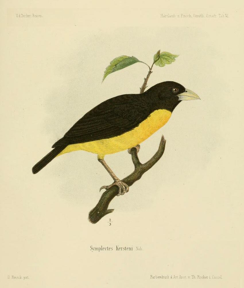 Symplectes kersteni